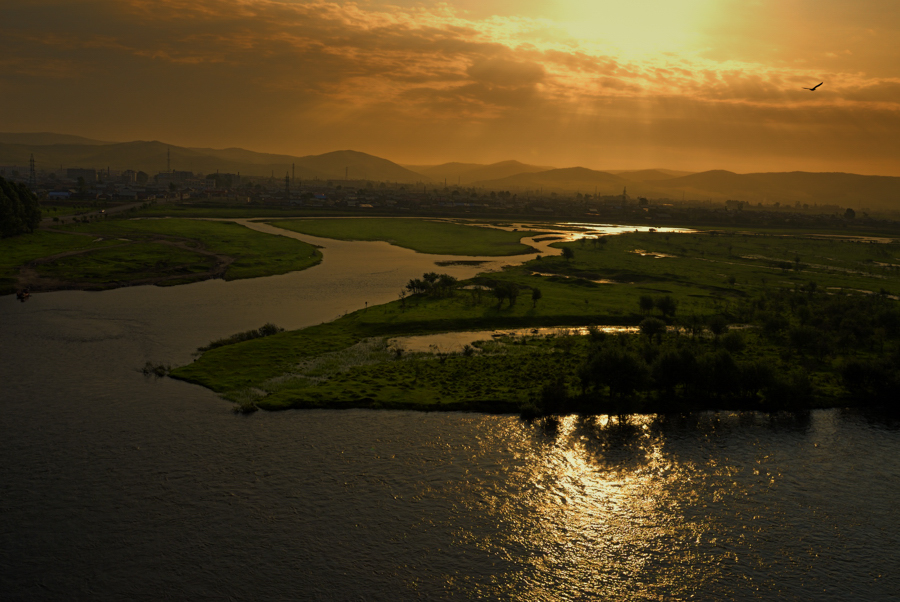 The Zhamin River near Mianduhezhen